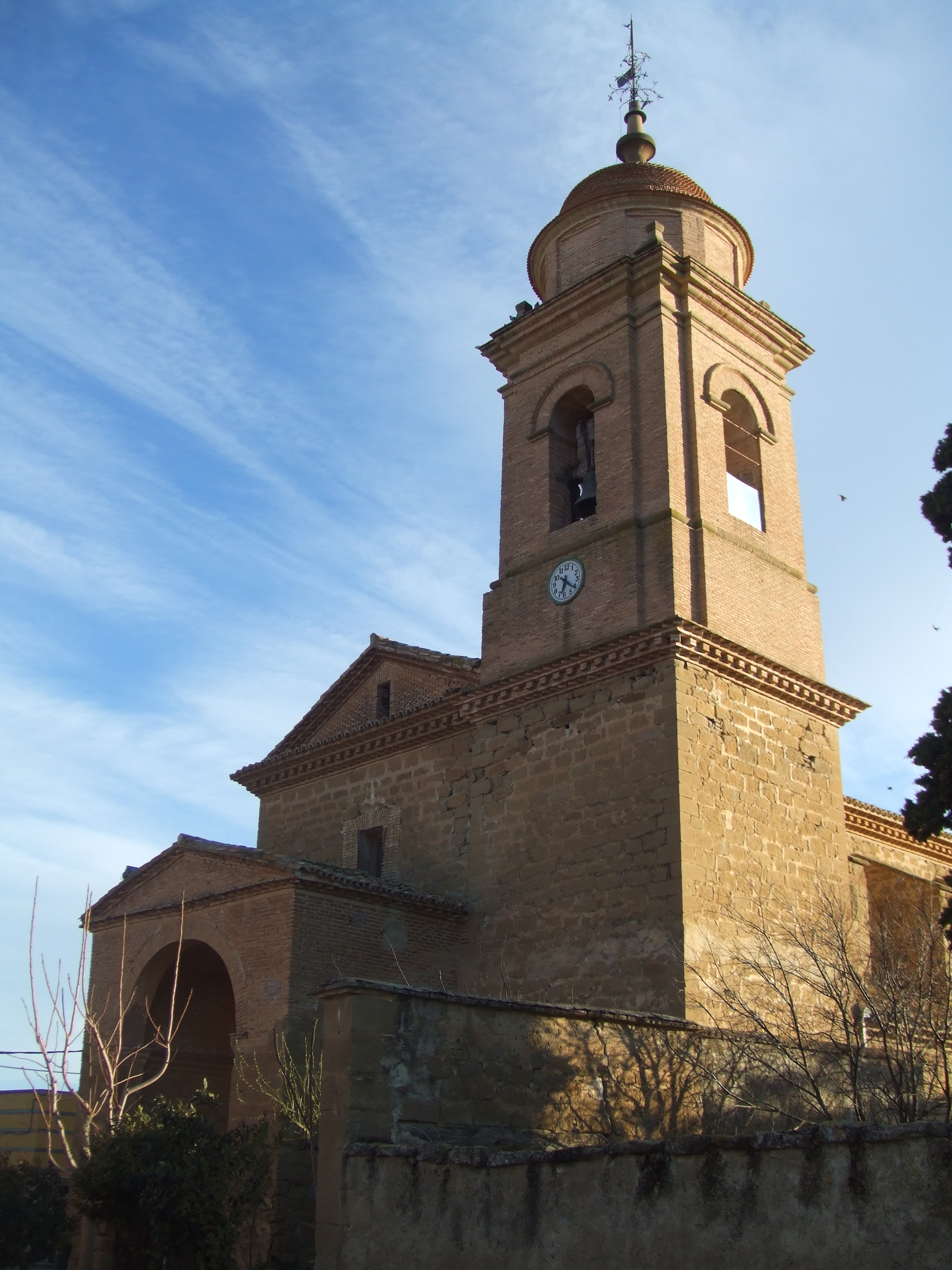 Photo of the Church of Liesa.